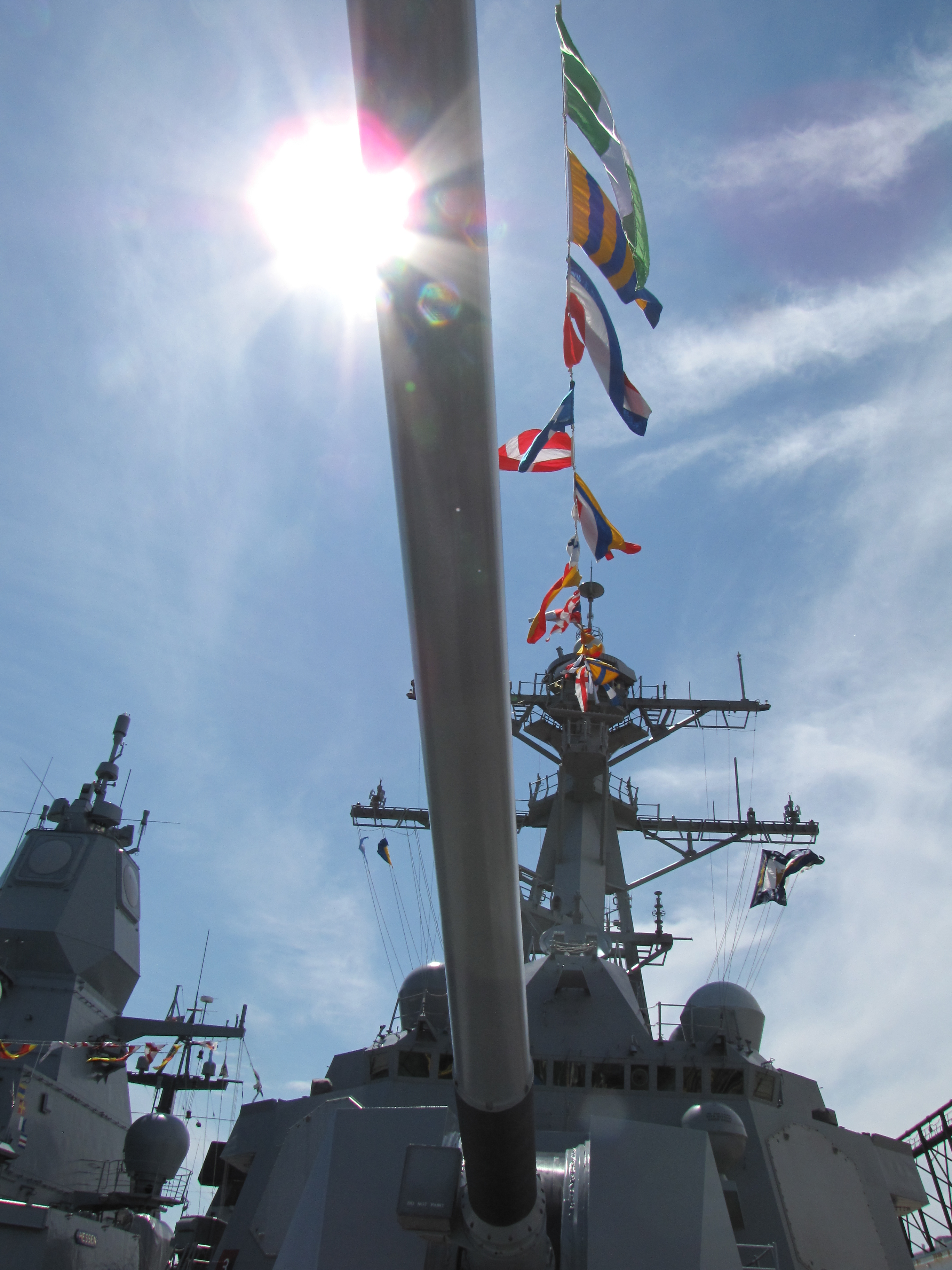 Forward 5in/62 gun of the USS Gravely. Taken during Fleet Week 2012 in Boston. The superstructure of a German destroyer is in the left background.